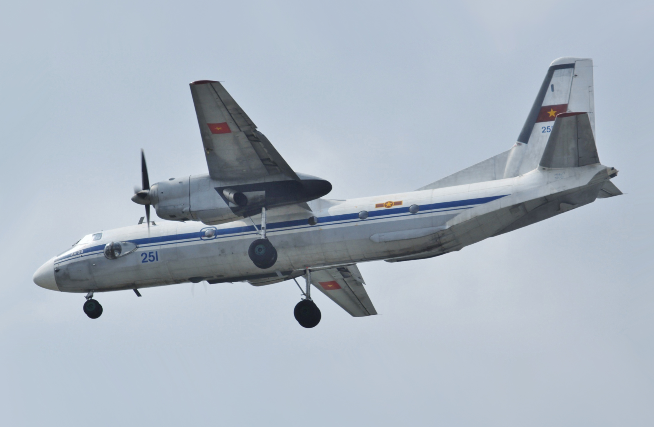 At Ho Chi Minh City Tan Son Nhat